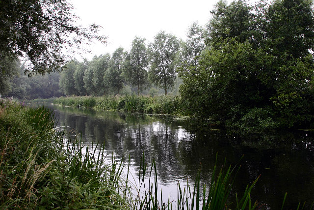 River Chelmer near Boreham